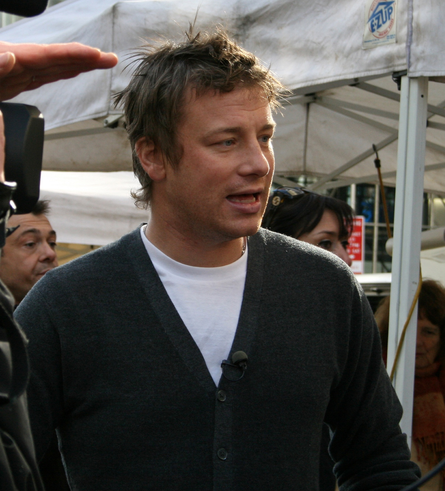 I love the green market. I walk through every morning on the way to work and it smells amazing. It was cuter than usual when Jamie Oliver was there